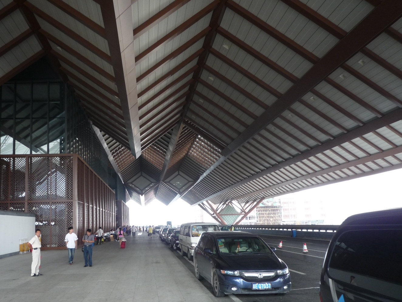 Suzhou Railway Station second floor north side